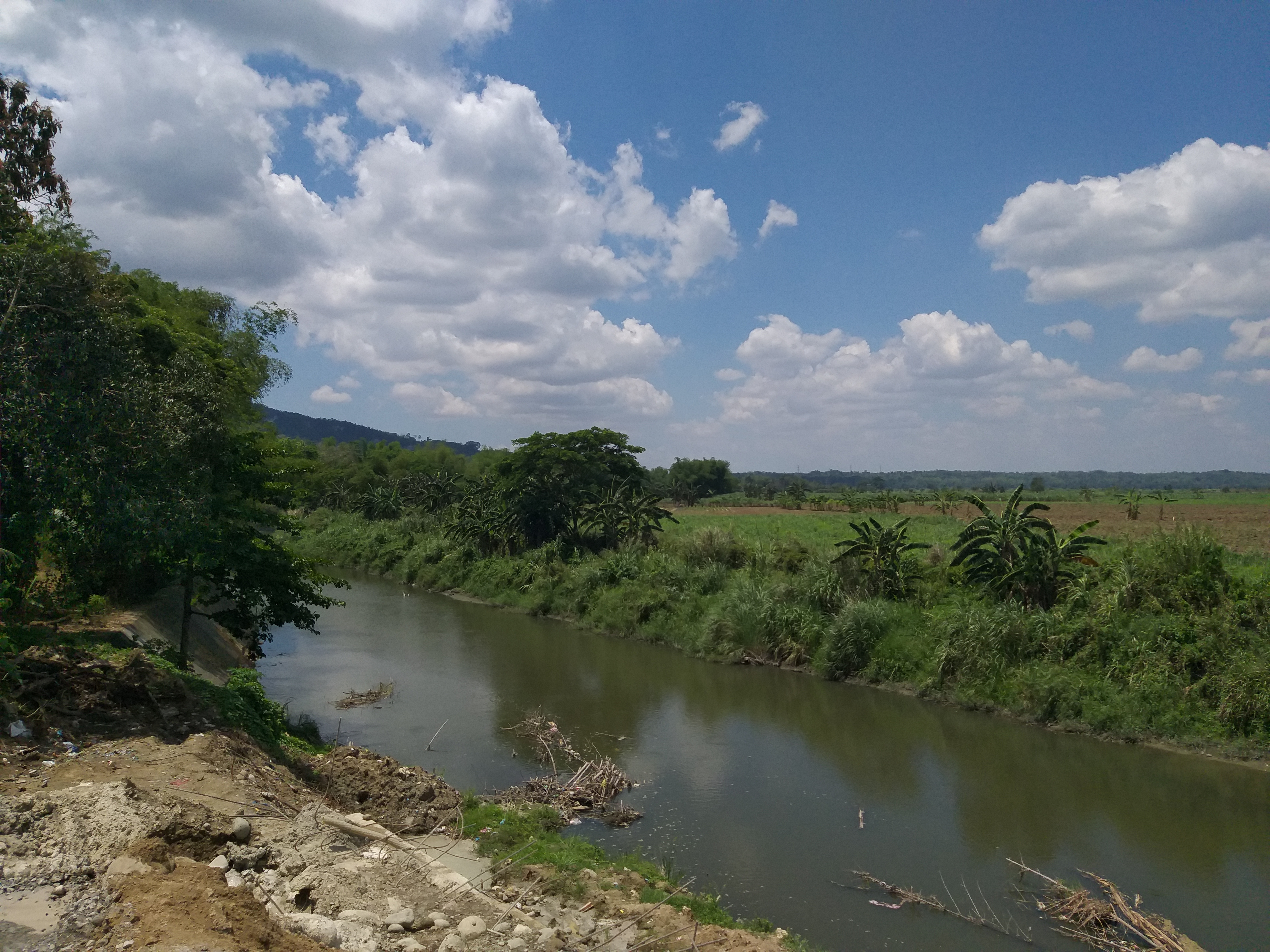 Jalaur River passing through San Enrique